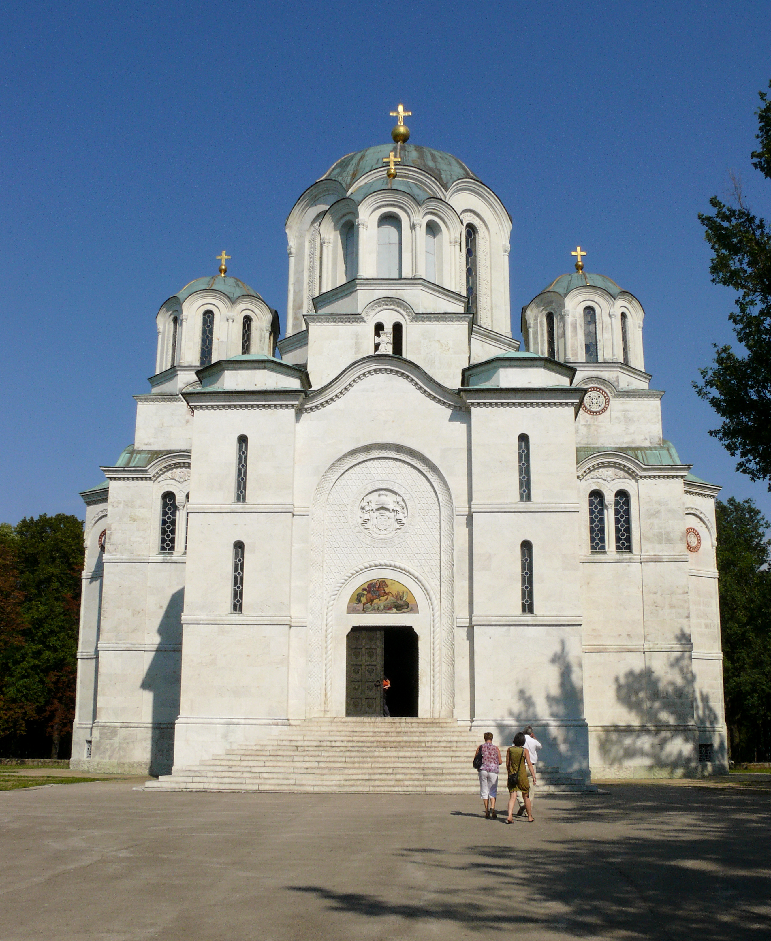 Face of St. George Church in Oplenac, Topola, Serbia.